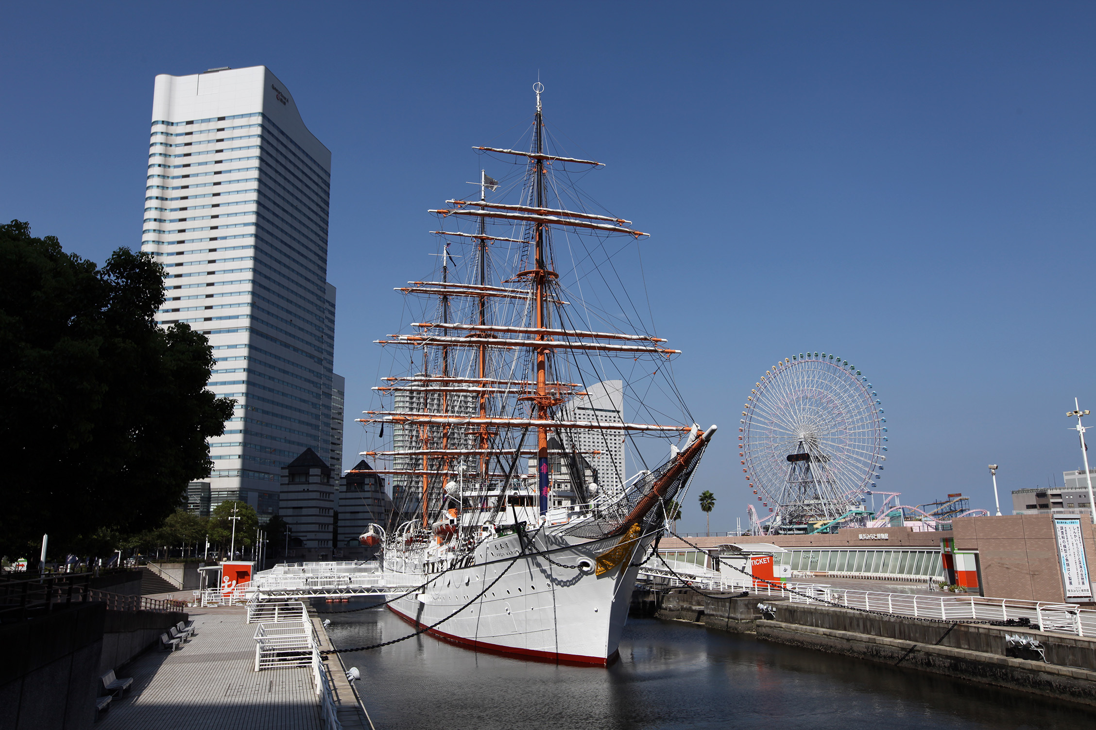 Nippon Maru